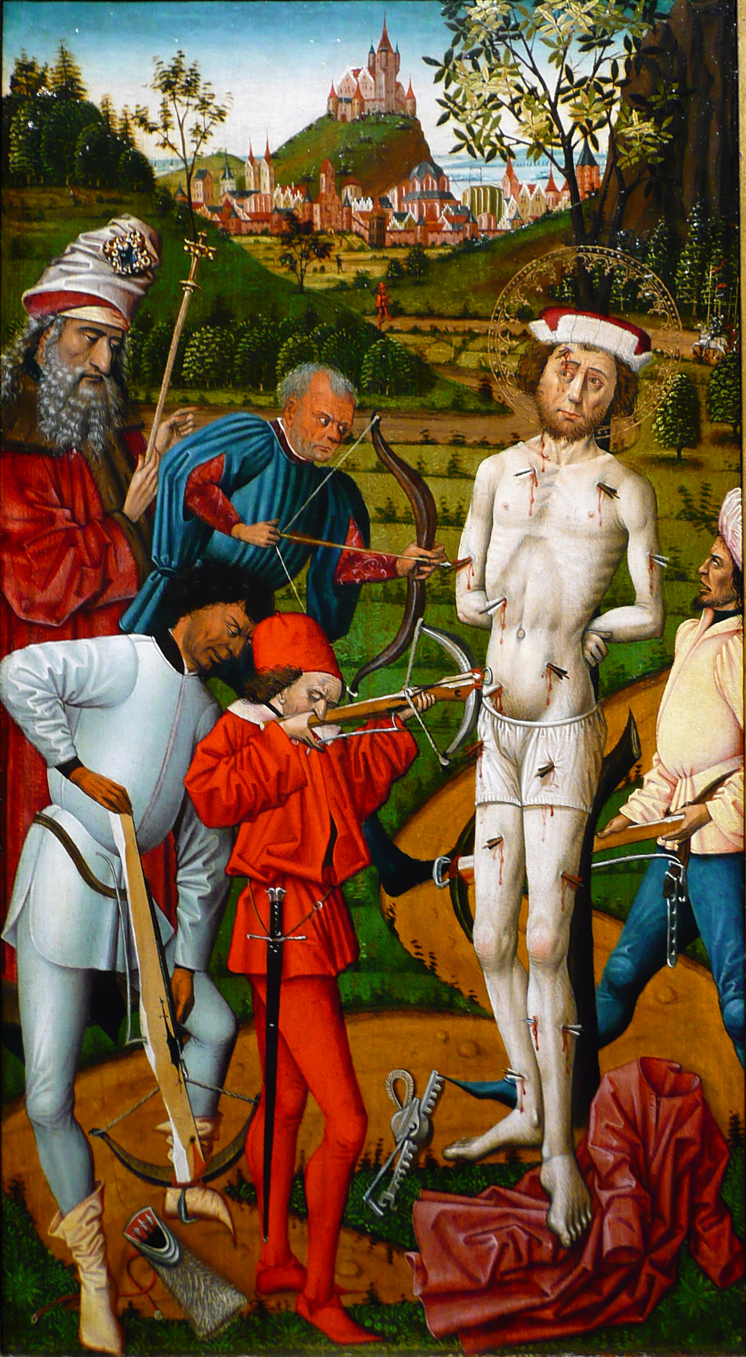 The Martyrdom of St Sebastian. Painting from Upper Bavaria (Munich?), around 1475. Current location: Wallraf-Richartz-Museum, Cologne, Germany